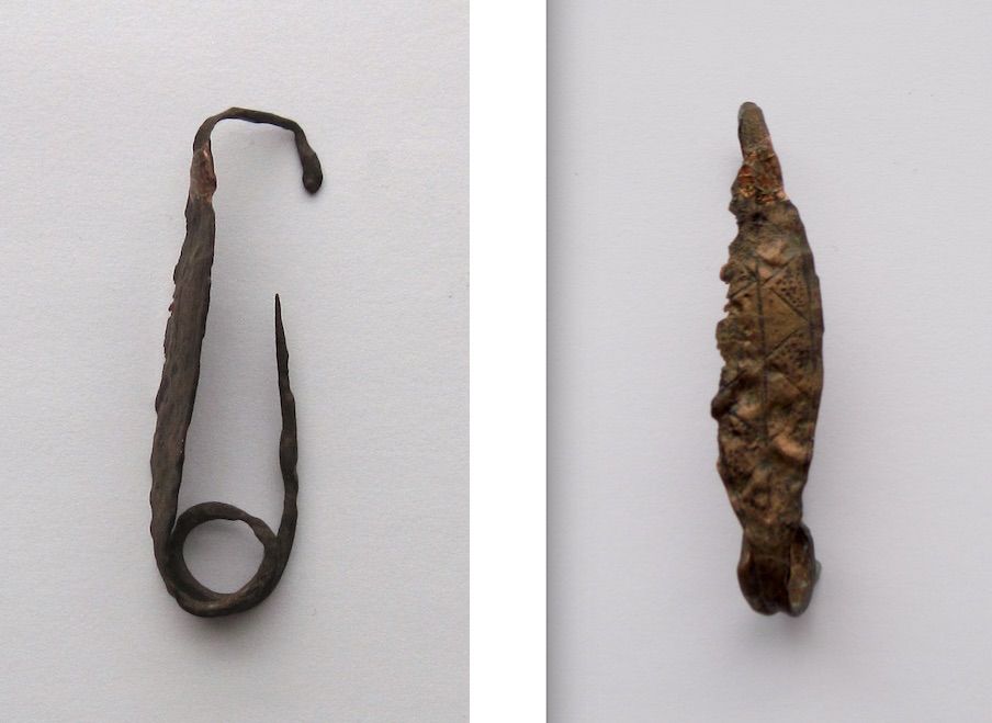 violin bow fibula, 10th century BC